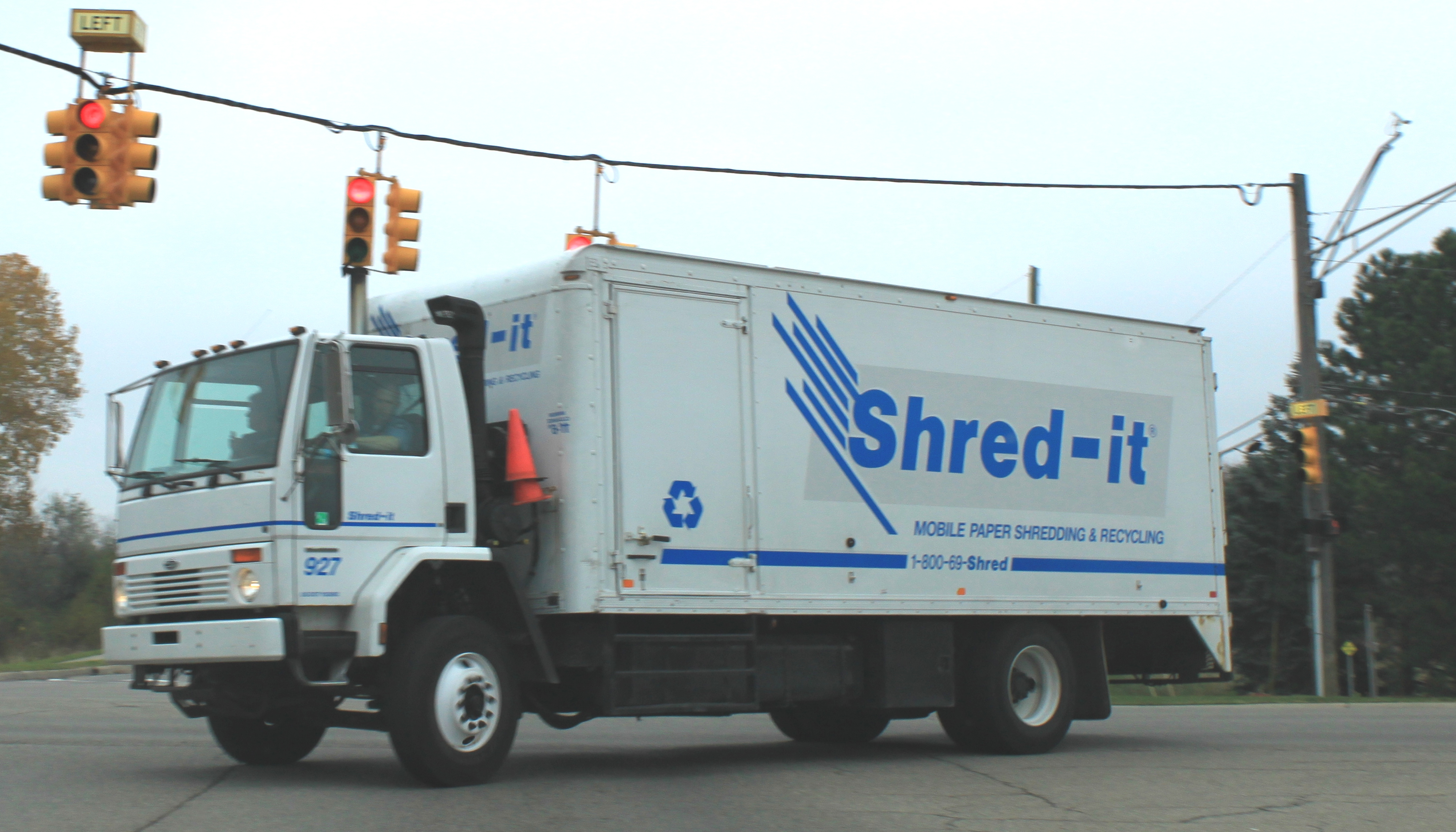 Shred-it service truck, Thirteen Mile Road at Haggerty, on border of Farmington Hills and Novi Michigan.